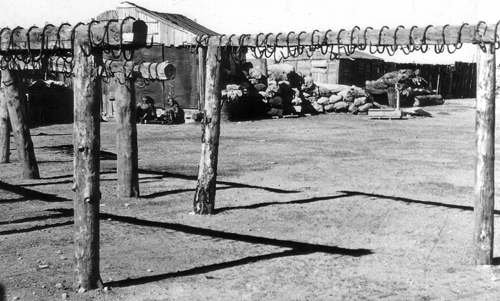 The abattoir of Asgat sum, Sukhbaatar aimag, Mongolia, 1972.